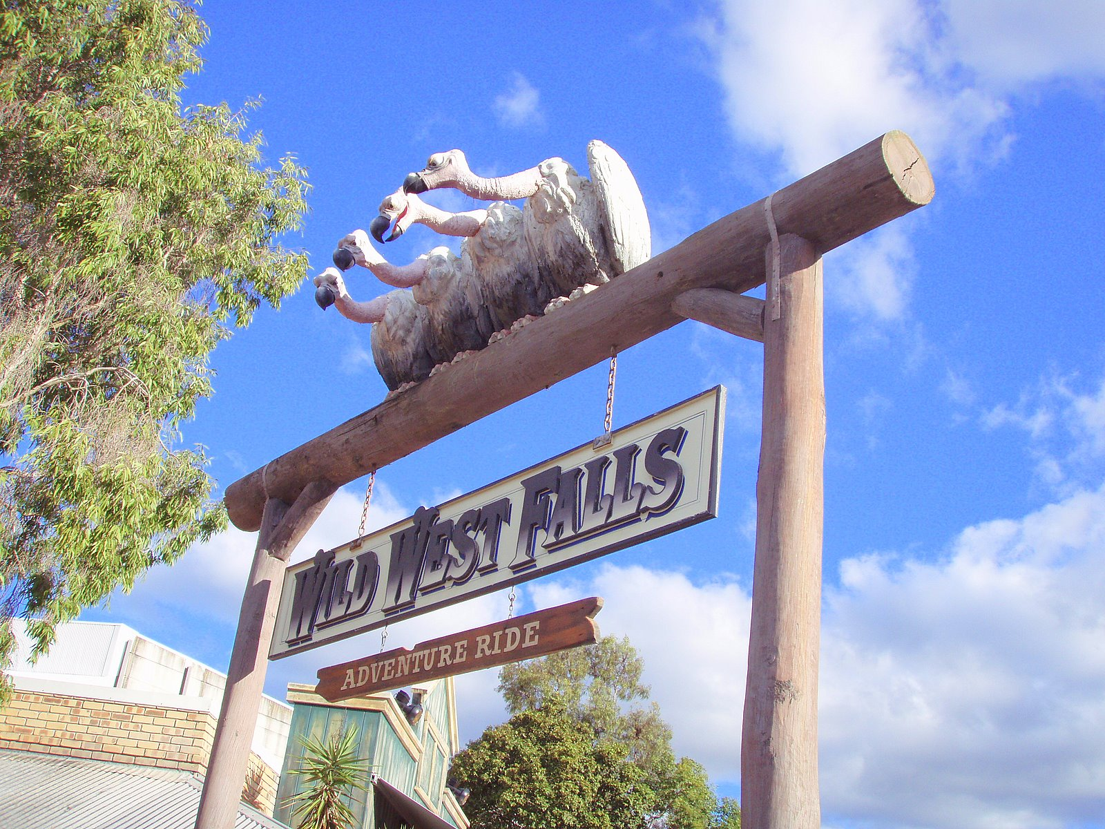 The sign for Wild West Falls is located about 100 metres away from the actual ride's entrance.